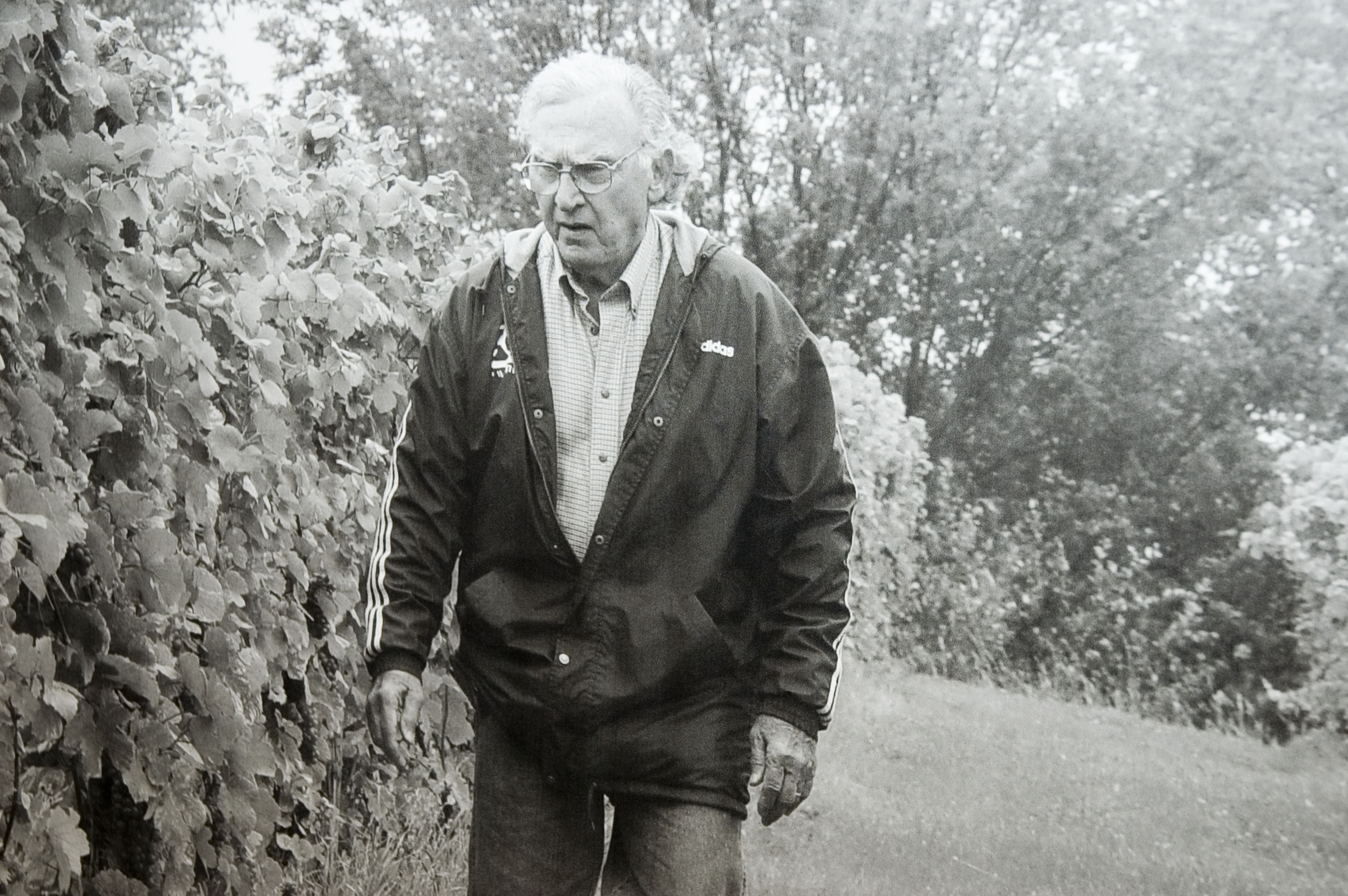 Madonna's father Silvio "Tony" Ciccone in his Ciccone Vineyard & Winery in 2008.